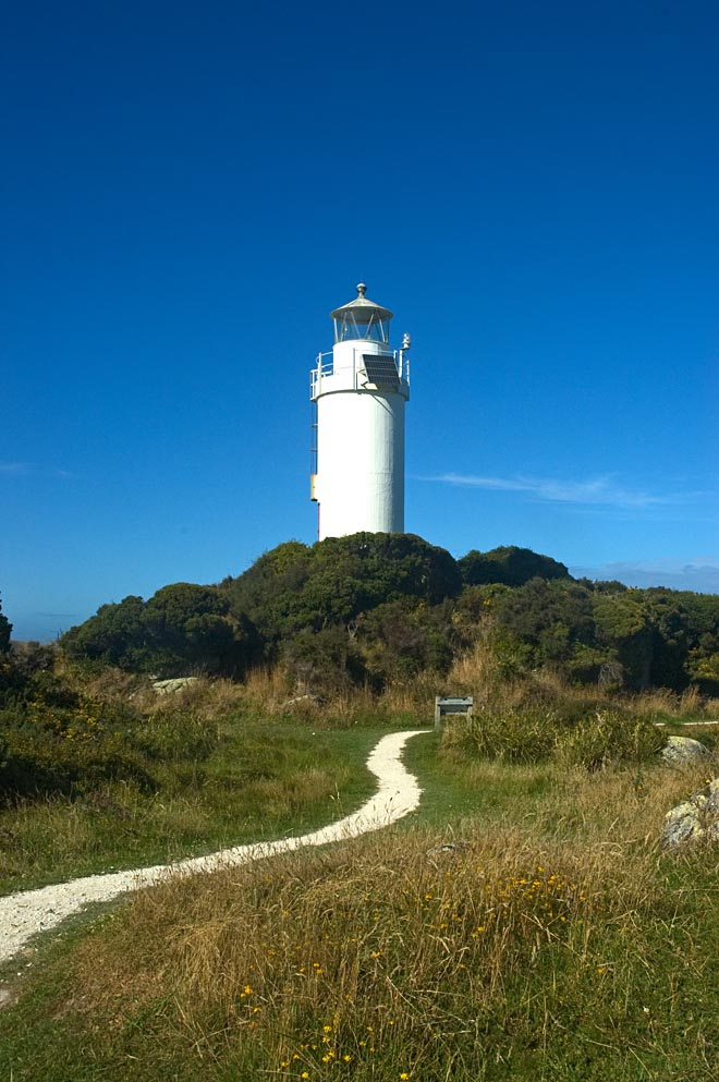 Cape Foulwind Lighthouse, West Coast, New Zealand. Photograph by James Shook, who retains copyright and releases the image under the license shown below. New Zealand Historic Places Trust Register Number: 5023